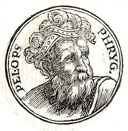 Pelops, king of Pisa in the Peloponnesus in Greek mythology.